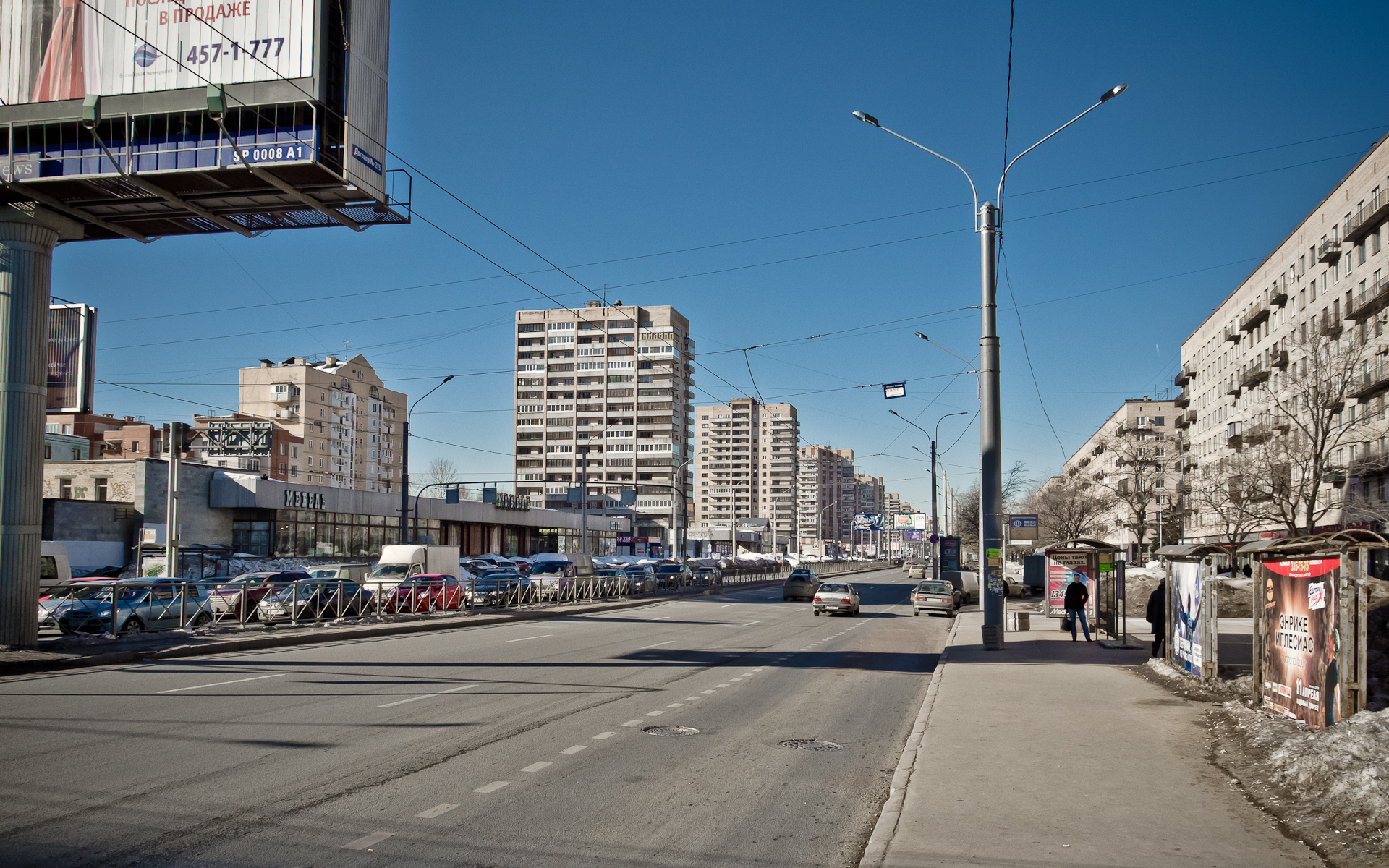 Saint Petersburg, Leninskiy avenue crossing with Narodnogo Opolchenia avenue